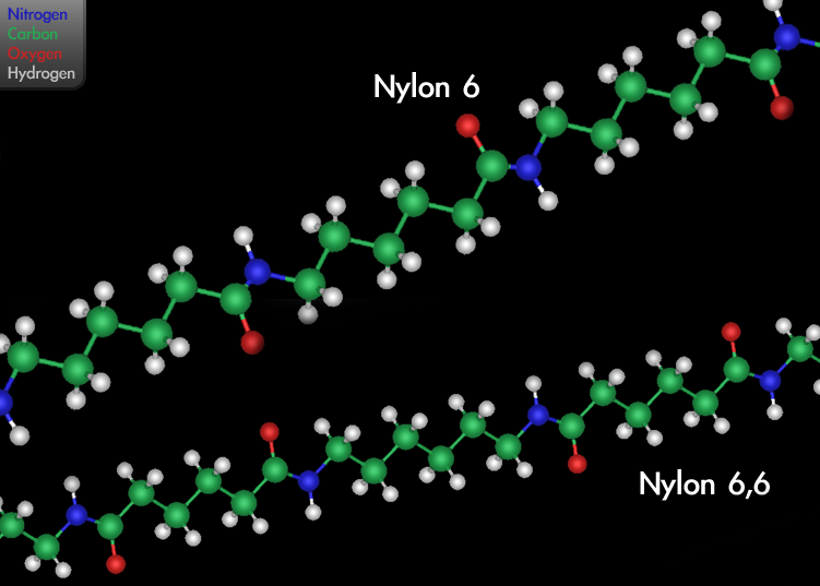 3D diagram showing the variants nylon 6 and nylon 6,6.